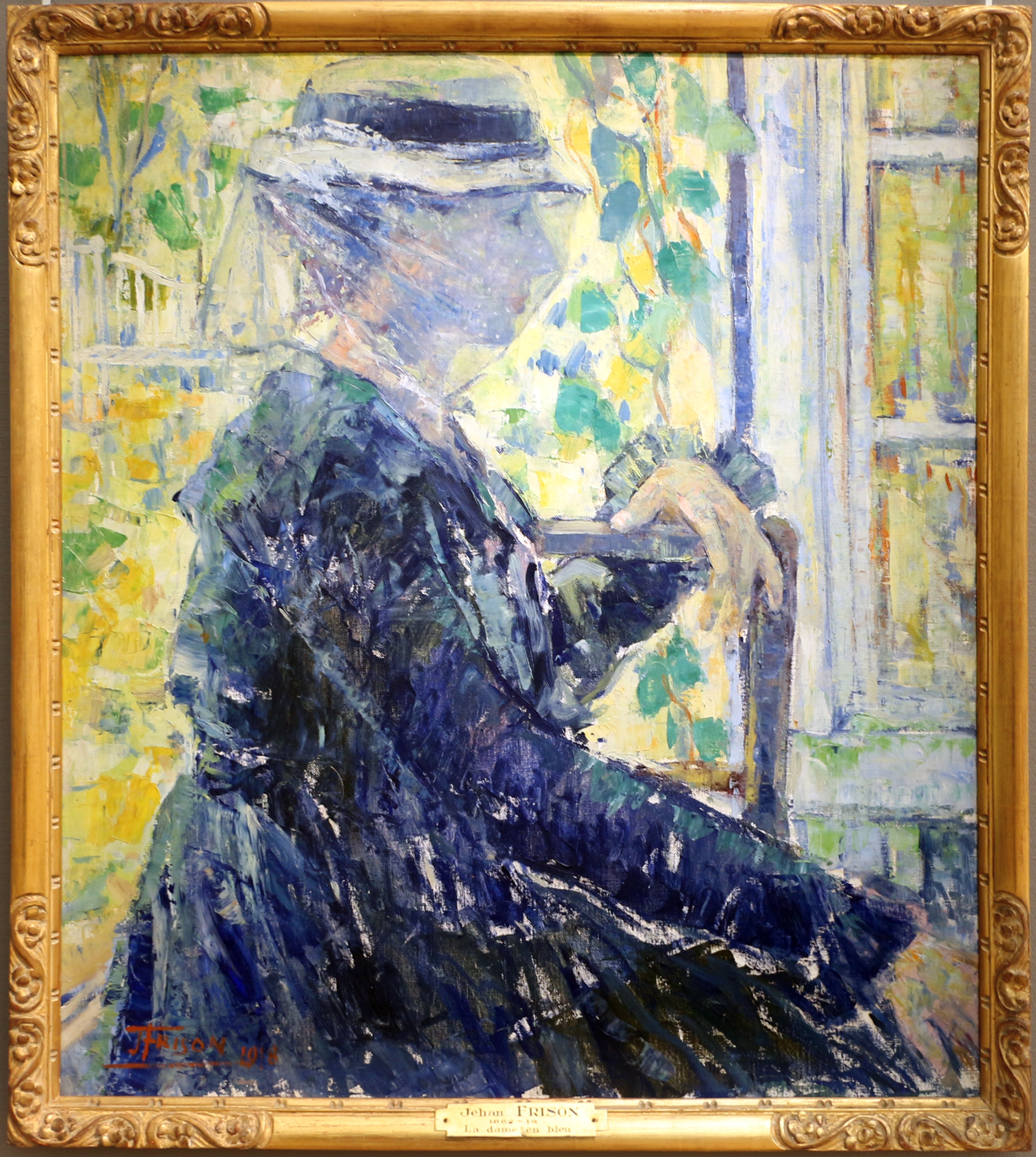 Museum of Ixelles